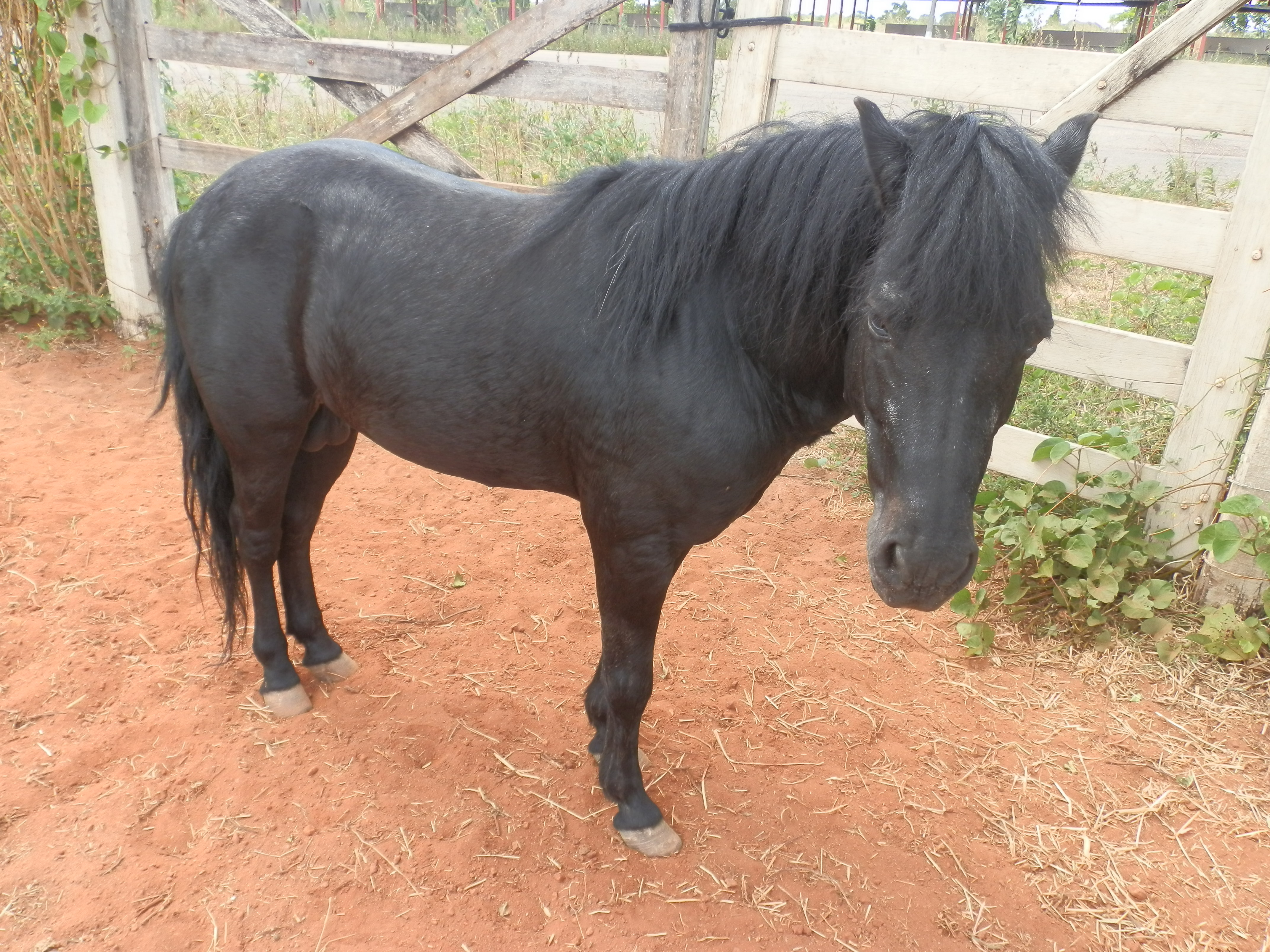 Pelezinho pony